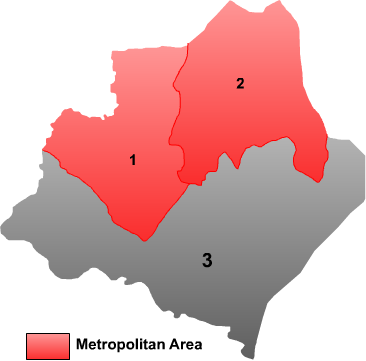 Map of Shizuishan in Ningxia province.